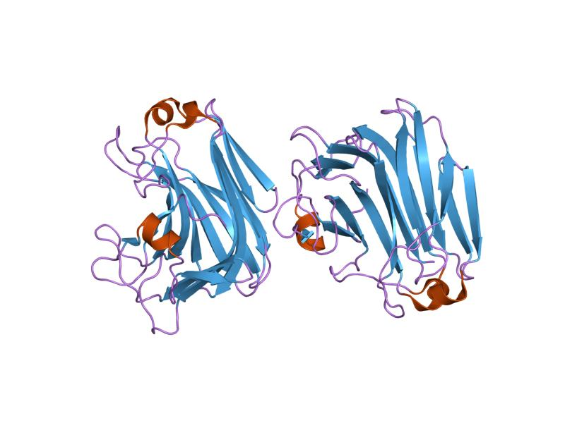 Cartoon representation of the molecular structure of protein registered with 1vav code.